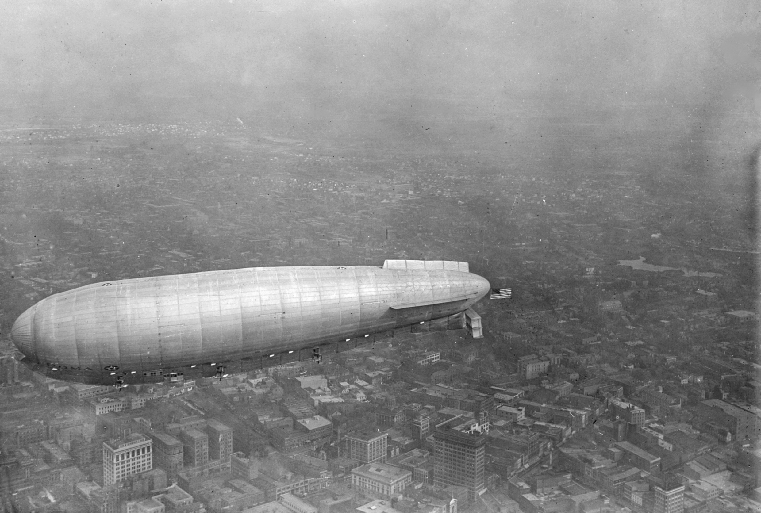 The U.S. Army airship Roma over Norfolk, Virginia (USA), in November 1921.